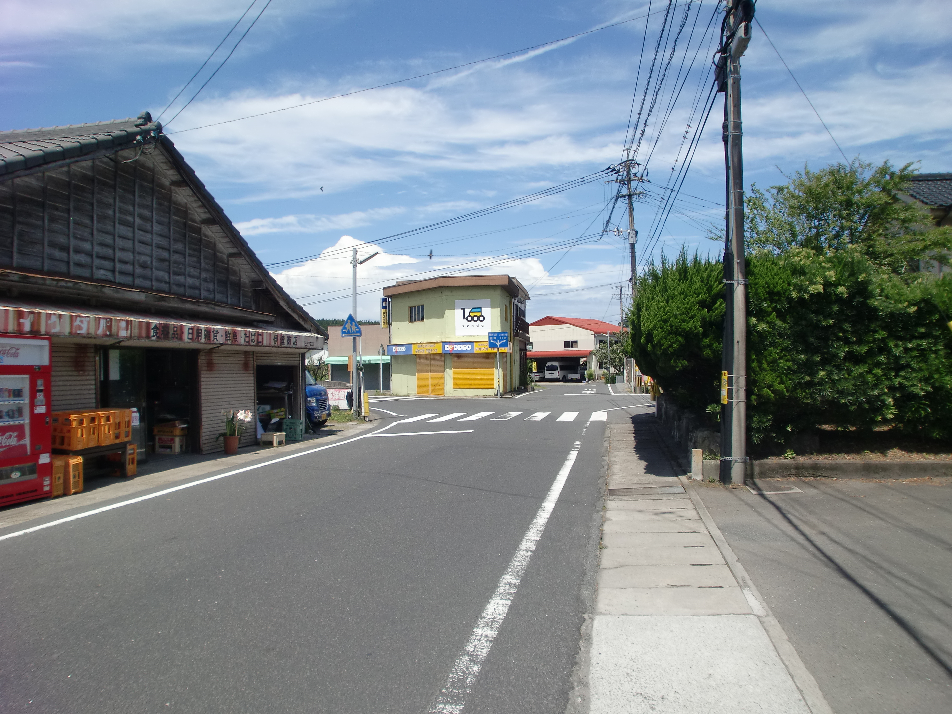 The Kagoshima Prefectural Road Route 35 at the Nagayoshi Post Office in Hioki City, view towards Kagoshima City